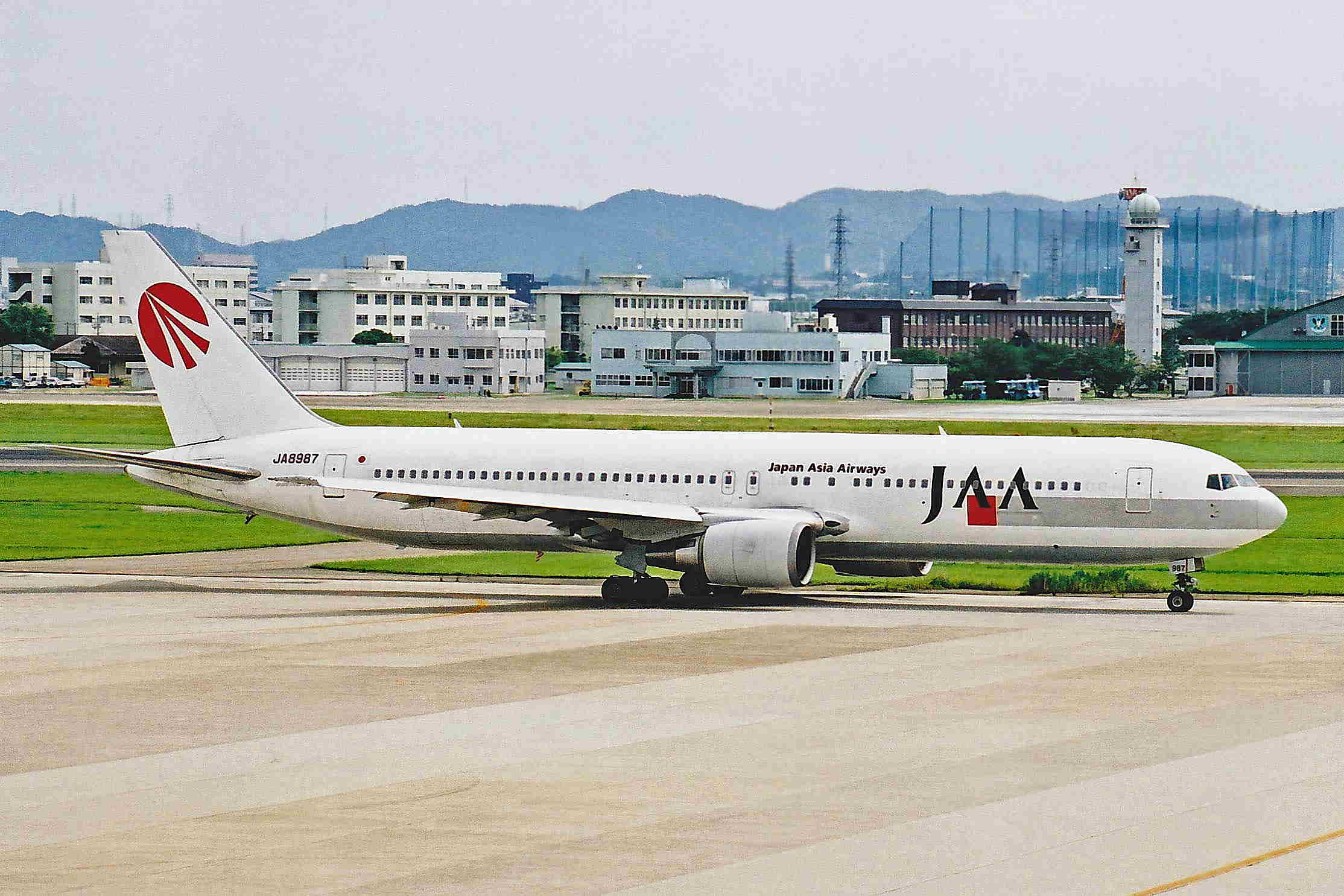 JAA / Japan Asia Airways operated services from Japan to Taiwan, similar to KLM Asia, Swissair Asia and British Asia Airways.